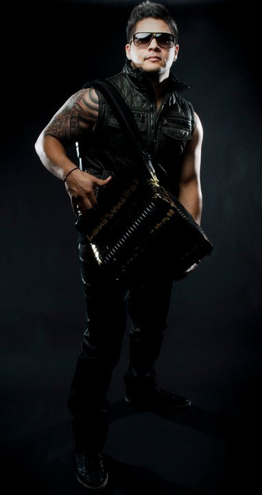 American Accordionist AJ Castillo - 2011. More information about artist